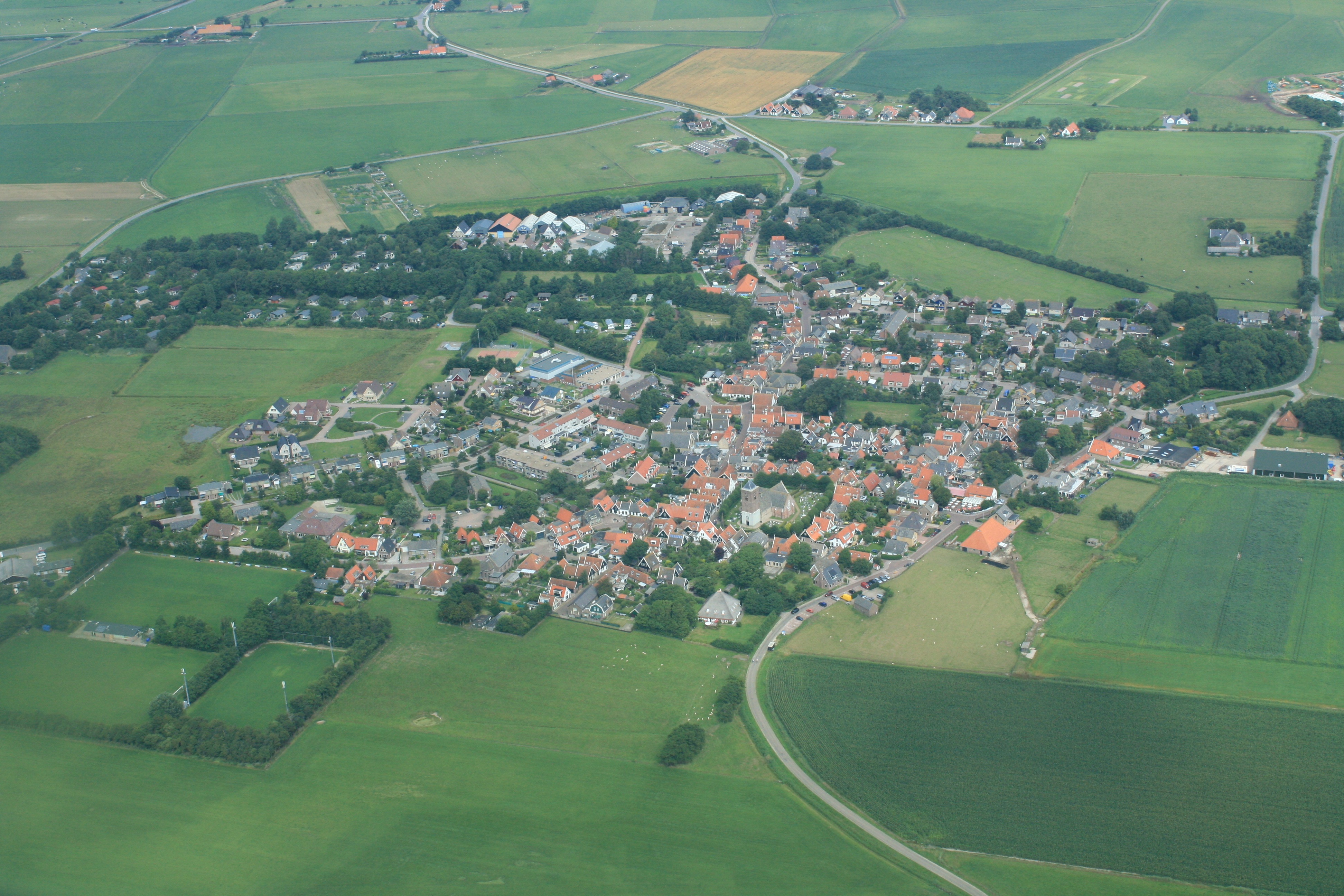 An aerial shot of the village Oosterend, on the island Texel, The Netherlands